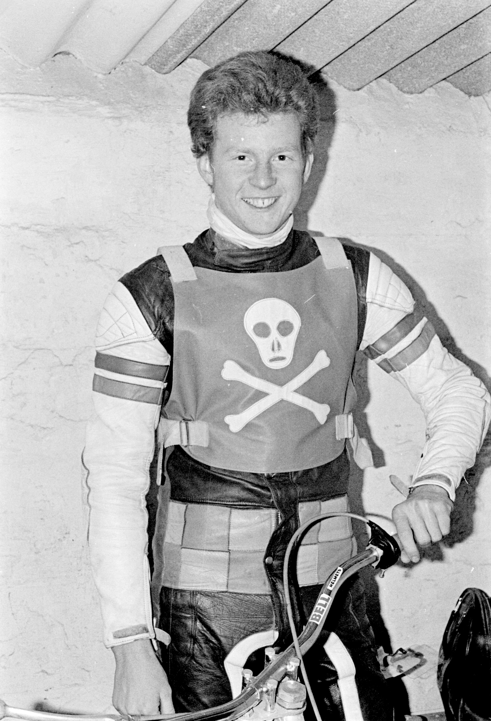 Neil Middleditch, English speedway rider now team manager of Poole Pirates (2009)